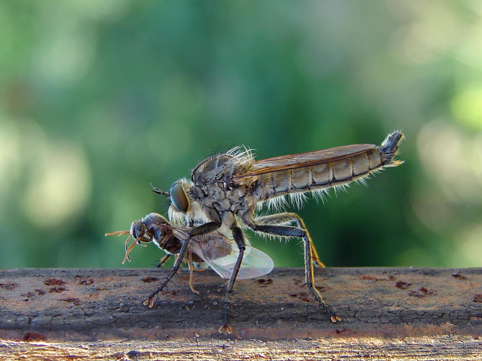 Unidentified Machimus sp.